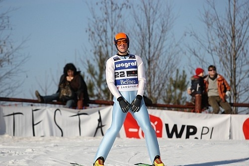 Urban Zamernik during training before FIS Junior World Ski Championships 2008.